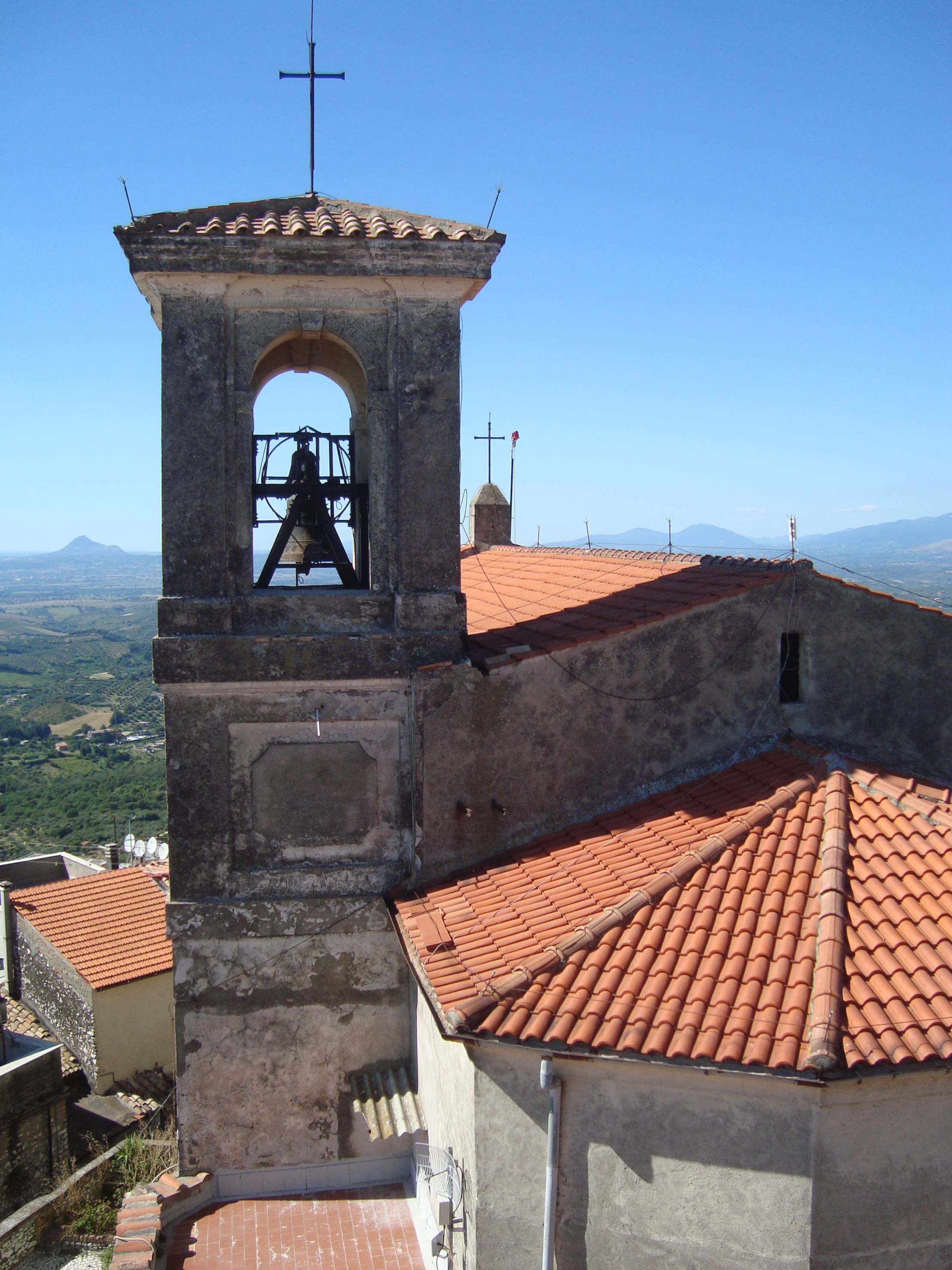 The church Santa Maria et San Biagio in Sant'Angelo Romano